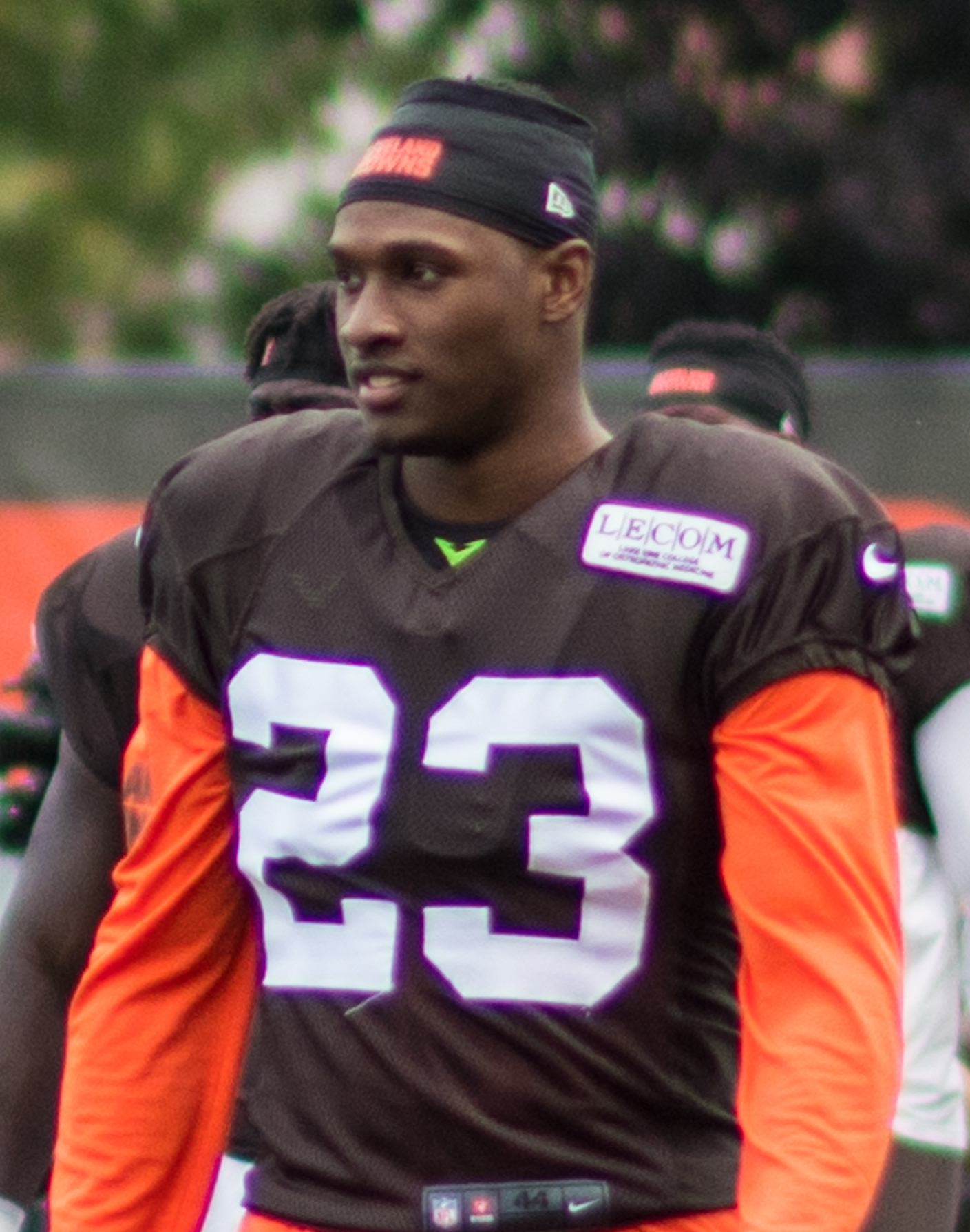 Denzel Ward and Damarious Randall